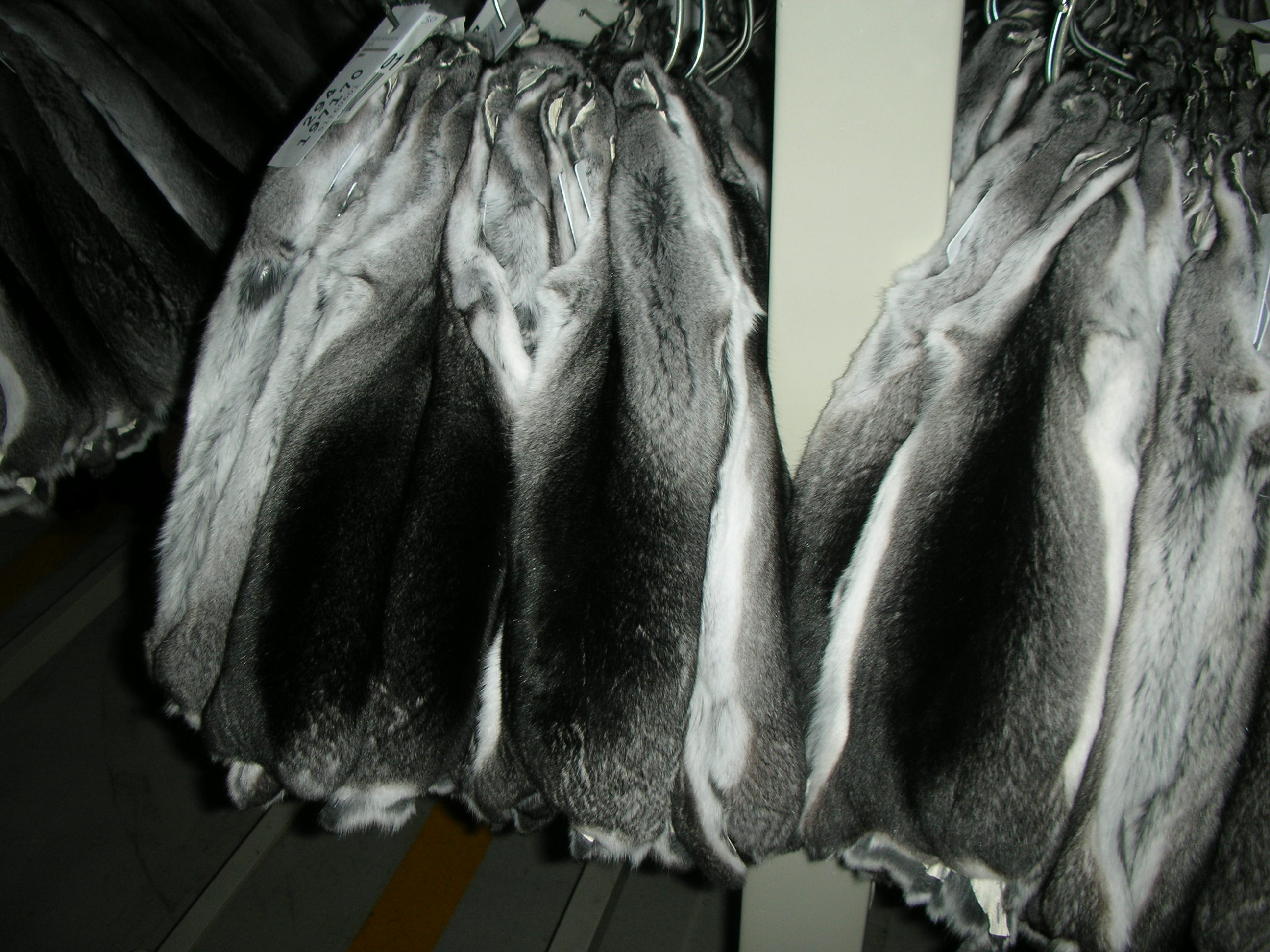 Chinchilla pelts in the warehouse of the auction house Kopenhagen Fur.